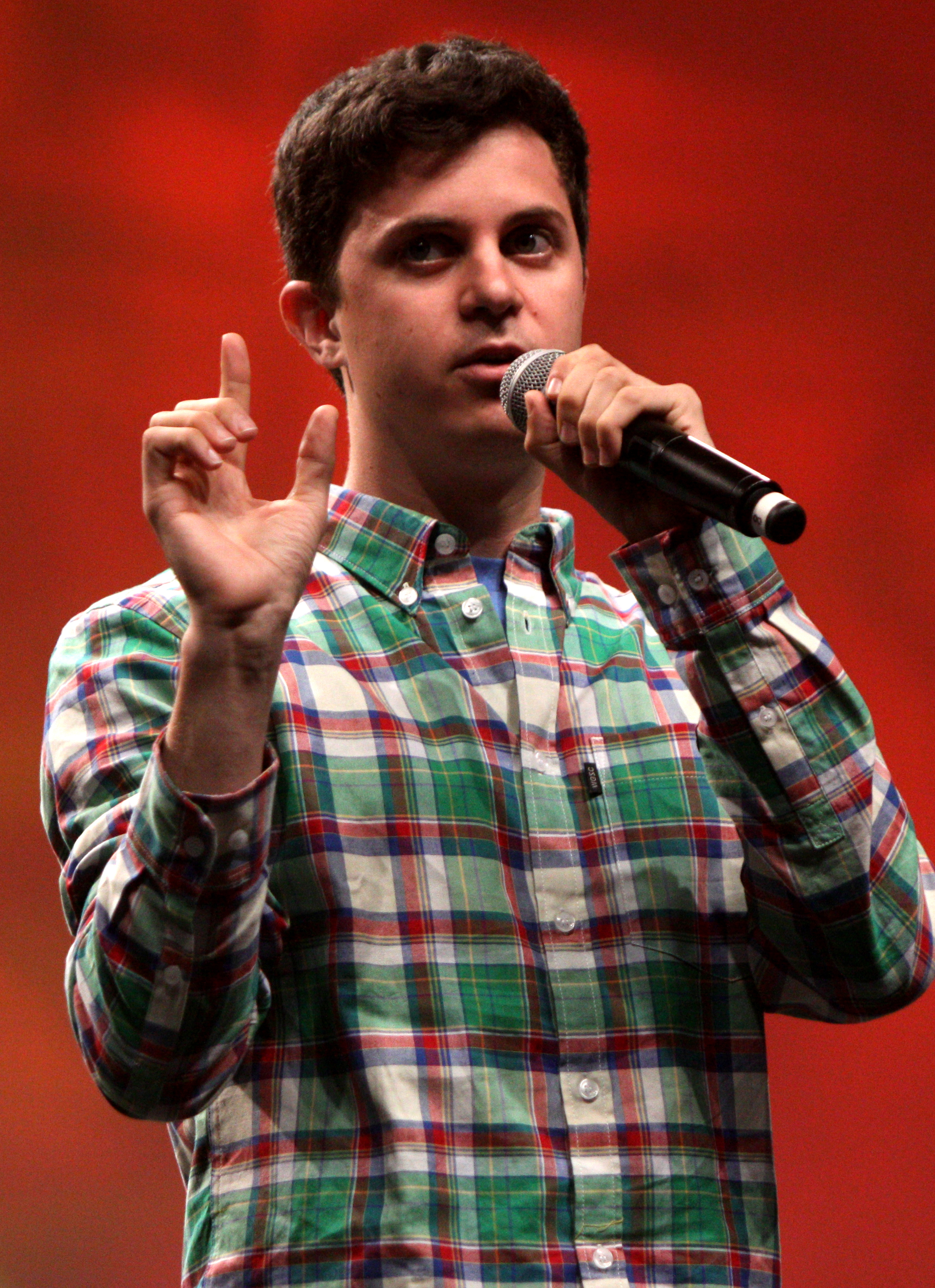 George Watsky at the 2012 VidCon in Anaheim, California.